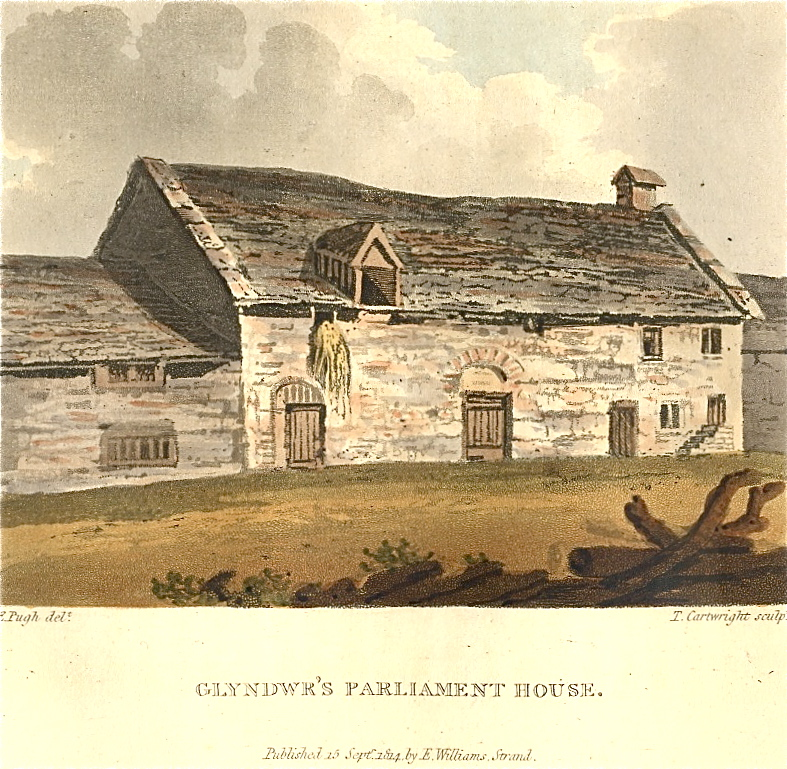 Parliament House, Machynlleth. Engraving by Edward Pugh, 1813.